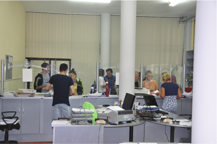 faculty of engineering